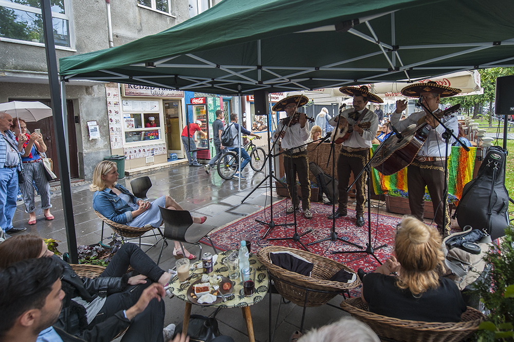 Mariachi Los Amigos - Mexican expatriates in Poland play own traditional music in front of Café Baobab in Saska Kepa district of Warsaw, July 2016.